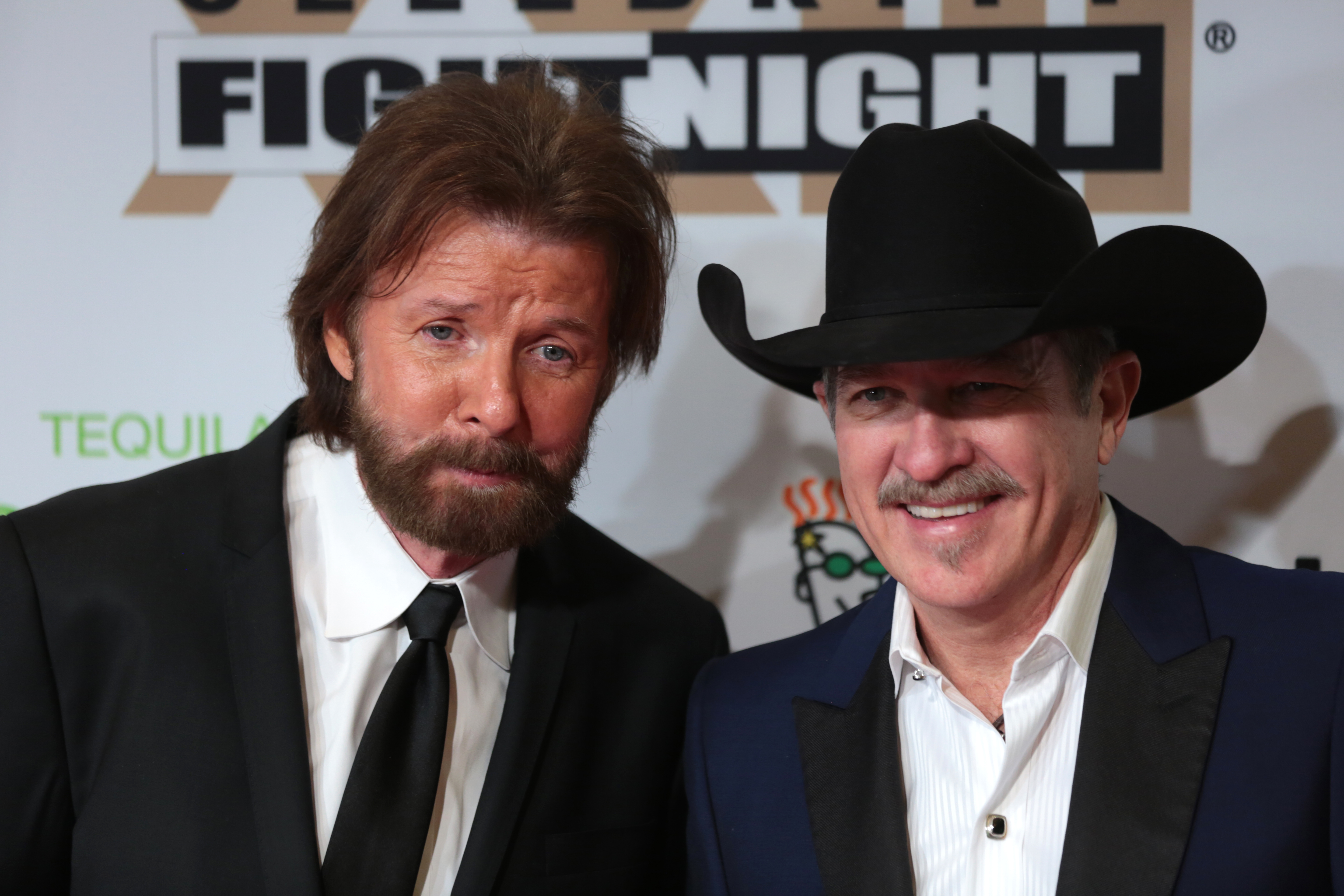 Ronnie Dunn and Kix Brooks at Celebrity Fight Night XXIII in Phoenix, Arizona.